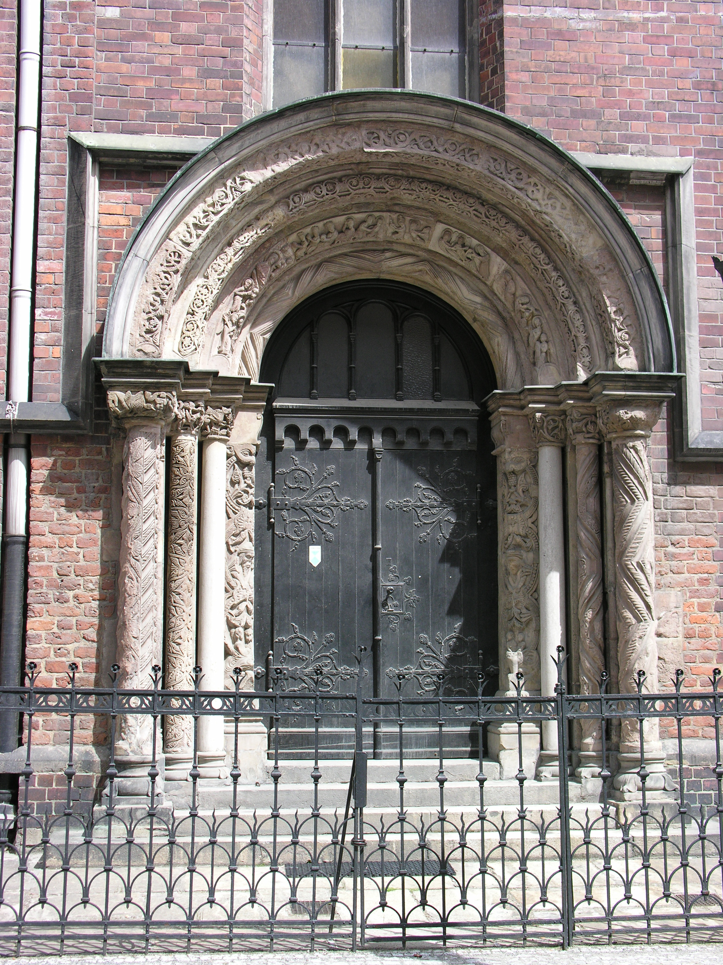 Portal z opactwa na Ołbinie wmurowany w kościrele św. Marii Magdaleny we Wrocławiu